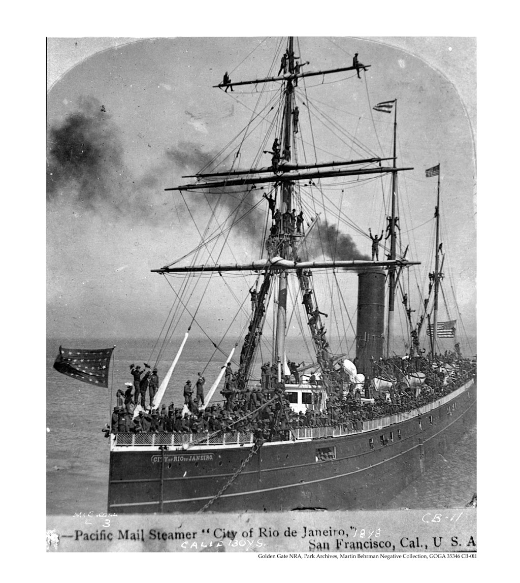 The steamer SS City of Rio de Janeiro in 1898 carrying troops from California in the Spanish-American War. The ship sunk in 1901 near the Golden Gate and the fairly vaguely defined "site" of the wreck is listed on the National Register of Historic Places